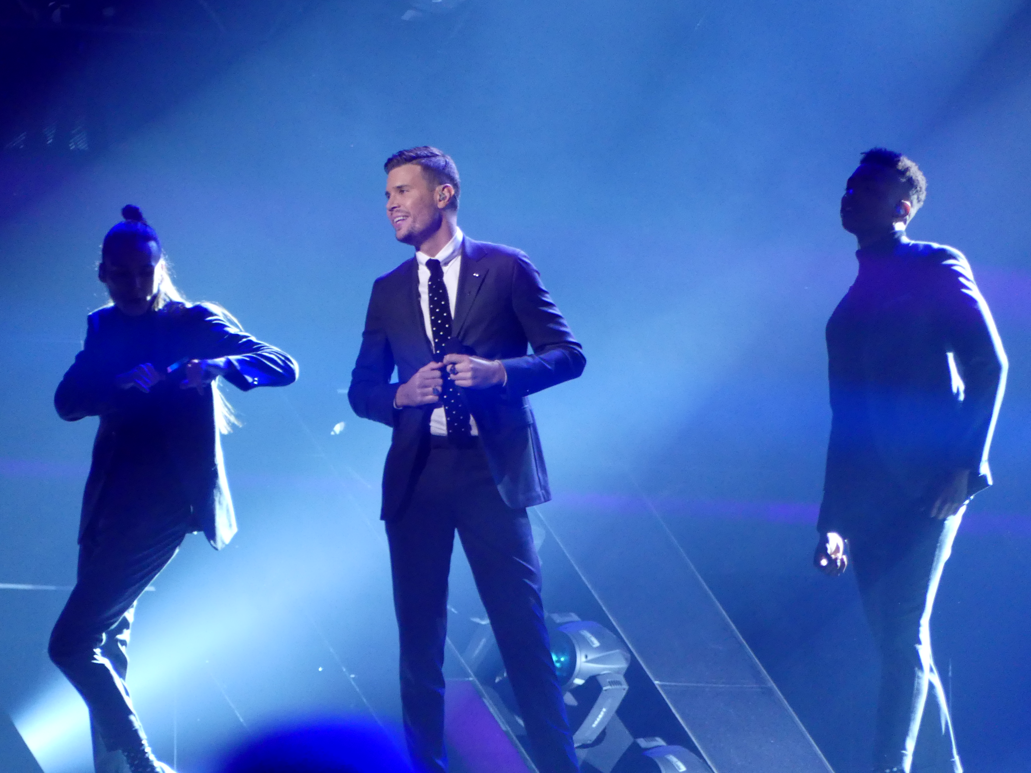 Melodifestivalen 2017, final Robin Bengtsson